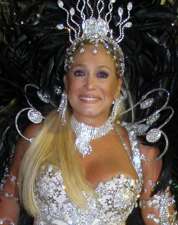 The Brazilian Actress, Suzana Vieira.